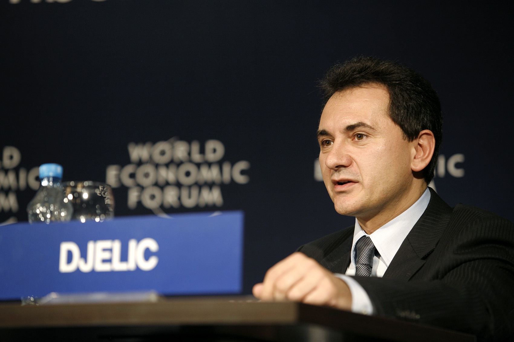 ISTANBUL/TURKEY, 30OCT08 - Božidar Đelić, Deputy Prime Minister for European Integration and Minister of Science and Technical Development of Serbia speaking at the World Economic Forum on Europe and Central Asia in Istanbul, 30 October - 1 November 2008. Copyright World Economic Forum ( by Serkan Eldeleklioglu-Bora Omerogullari-Ozan Atasoy